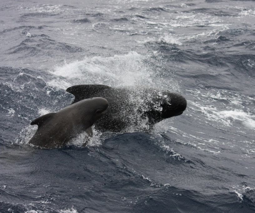 Long Finned Pilot Whale cow and calf in the Goban spur area South of Ireland.